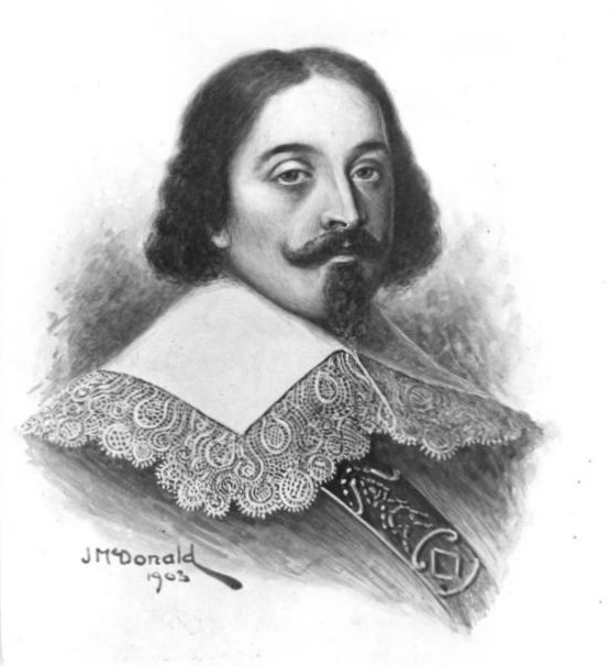 On 18 December 1642, Abel Janszoon Tasman anchored his two ships near Wainui in Mohua (Golden Bay), the first European visitor to visit Aotearoa New Zealand. Tasman had sighted land on the 13th, and upon assuming that it was connected to an island at the southern tip of South America, named it Staten Landt. Proceeding north, and then east, Tasman came to present day Golden Bay, where he anchored his two ships. One of the ships was attacked by Ngati Tumatakokiri Maori. Four of Tasman's men, and several Maori were killed in the altercation. Tasman named the bay Murderers Bay, and sailed north, mistaking Cook Strait for a bight, naming it Zeehaen's Bight. Two names Tasman gave to New Zealand landmarks still endure - Cape Maria van Diemen, and Three Kings Island. Tasman is also responsible for the name New Zealand (Nieuw Zeeland). Tasman was a Dutch seafarer, explorer and merchant, best known for his voyages of 1642 and 1644 in the service of the Vereenigde Oost-Indische Compagnie (United East India Company). As well as being the first known European to visit New Zealand, he also the first to reach Van Diemen's Land (Tasmania), and to sight the Fijian islands. His navigator François Visscher, and his merchant Isaack Gilsemans, mapped substantial portions of Australia, New Zealand and some Pacific Islands. Archives reference: AAQT 6539 32 / A1111 R21010205 For updates on our On This Day series and news from Archives New Zealand, follow us on Twitter Material from Archives New Zealand